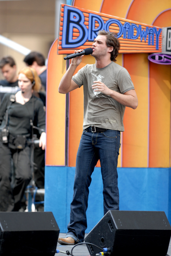 Tarzan cast members Jen Gambatese and Josh Strickland perform "For the First Time" at Broadway on Broadway, September 10th 2006.